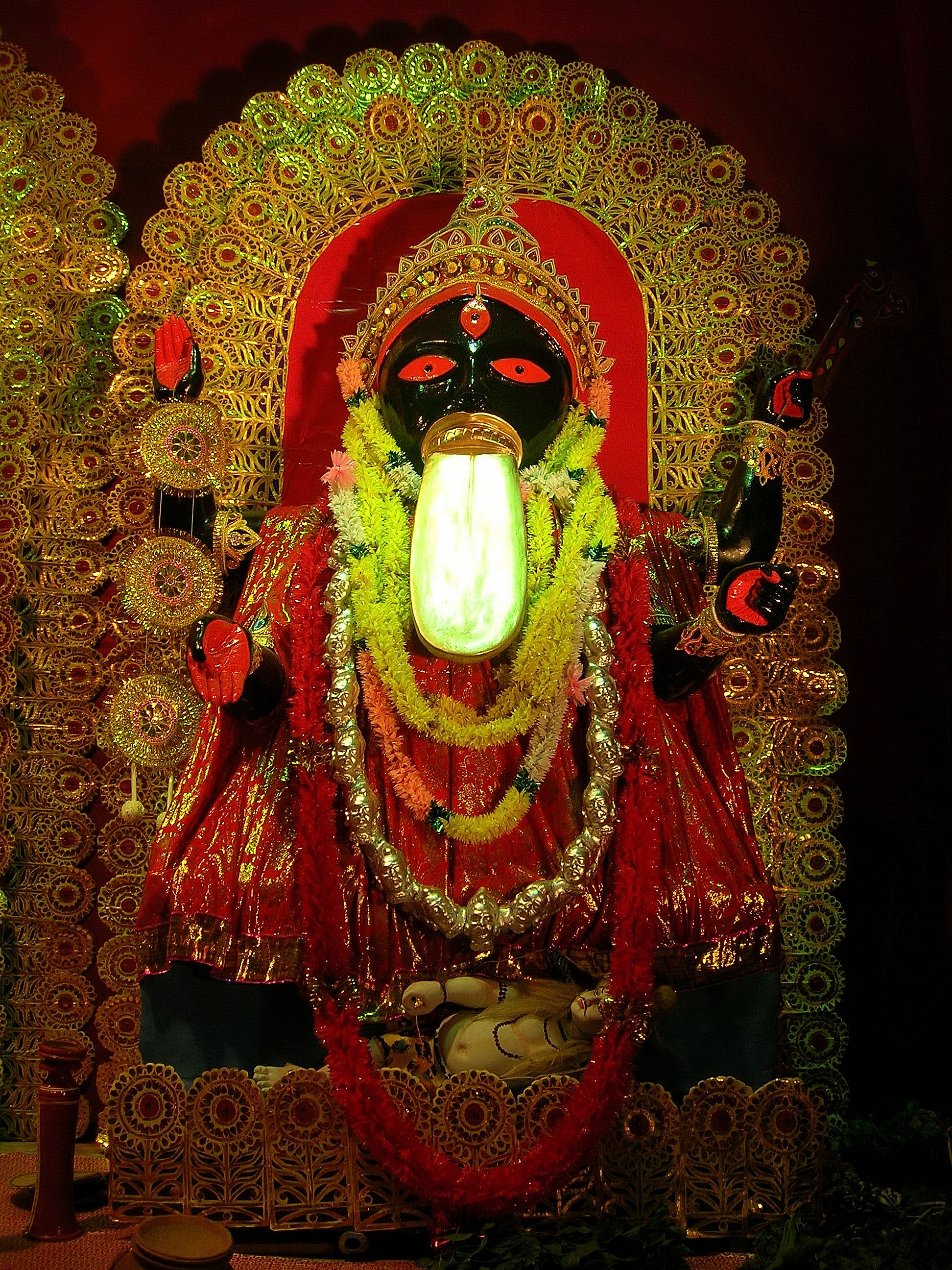 A Replica of the Kalighat Temple Kali at a Kali Puja Pandal at Behala, Kolkata